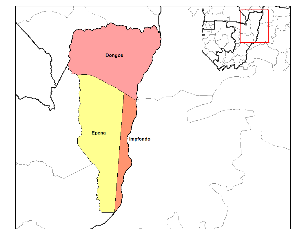 Map of the districts of Likouala region in the Republic of the Congo. Created by Rarelibra 14:27, 12 September 2006 (UTC) for public domain use, using MapInfo Professional v8.5 and various mapping resources.